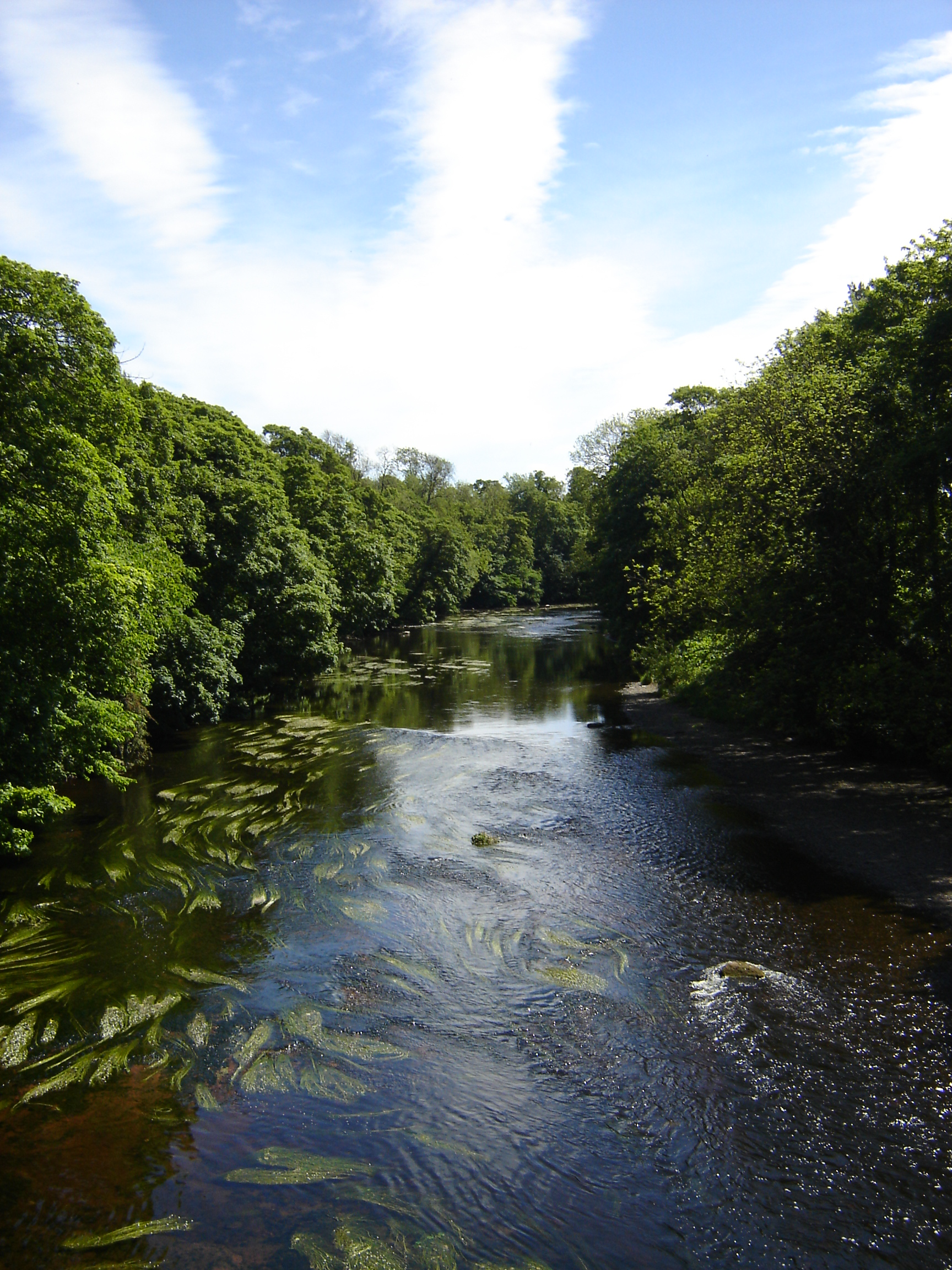 River Tees at Low Dinsdale, looking upstream